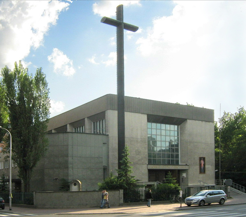 Church of Divine Providence in Warsaw. (Not to be confused with National Temple of Divine Providence)